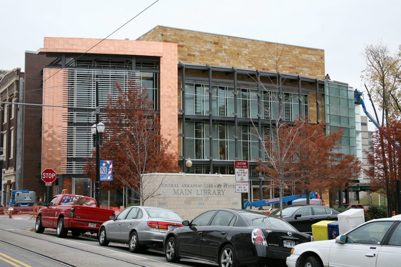 The Main Library, the flagship of the Central Arkansas Library System, is housed in the renovated Fones Brothers Warehouse in the historic River Market District. The third site for the library, a 132,000-square-feet facility, opened at 100 Rock Street in 1997. The Main Library offers patrons thousands of books and audiovisual items for children and adults. It is also home to the Butler Center for Arkansas Studies and the Sturgis Center for Technology Training. Other features include wireless Internet access, on-site public computer classes and several public meeting rooms.